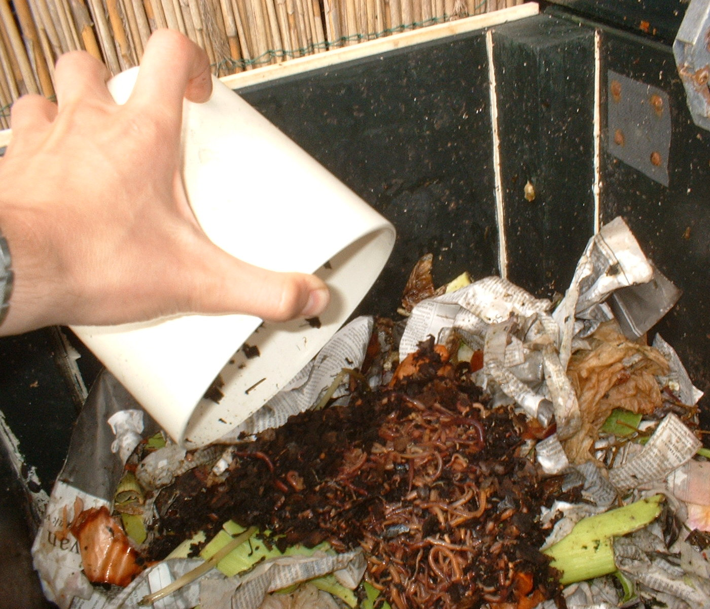 Composting-worms just added to a fresh batch of garbage in a self-made worm-bin.